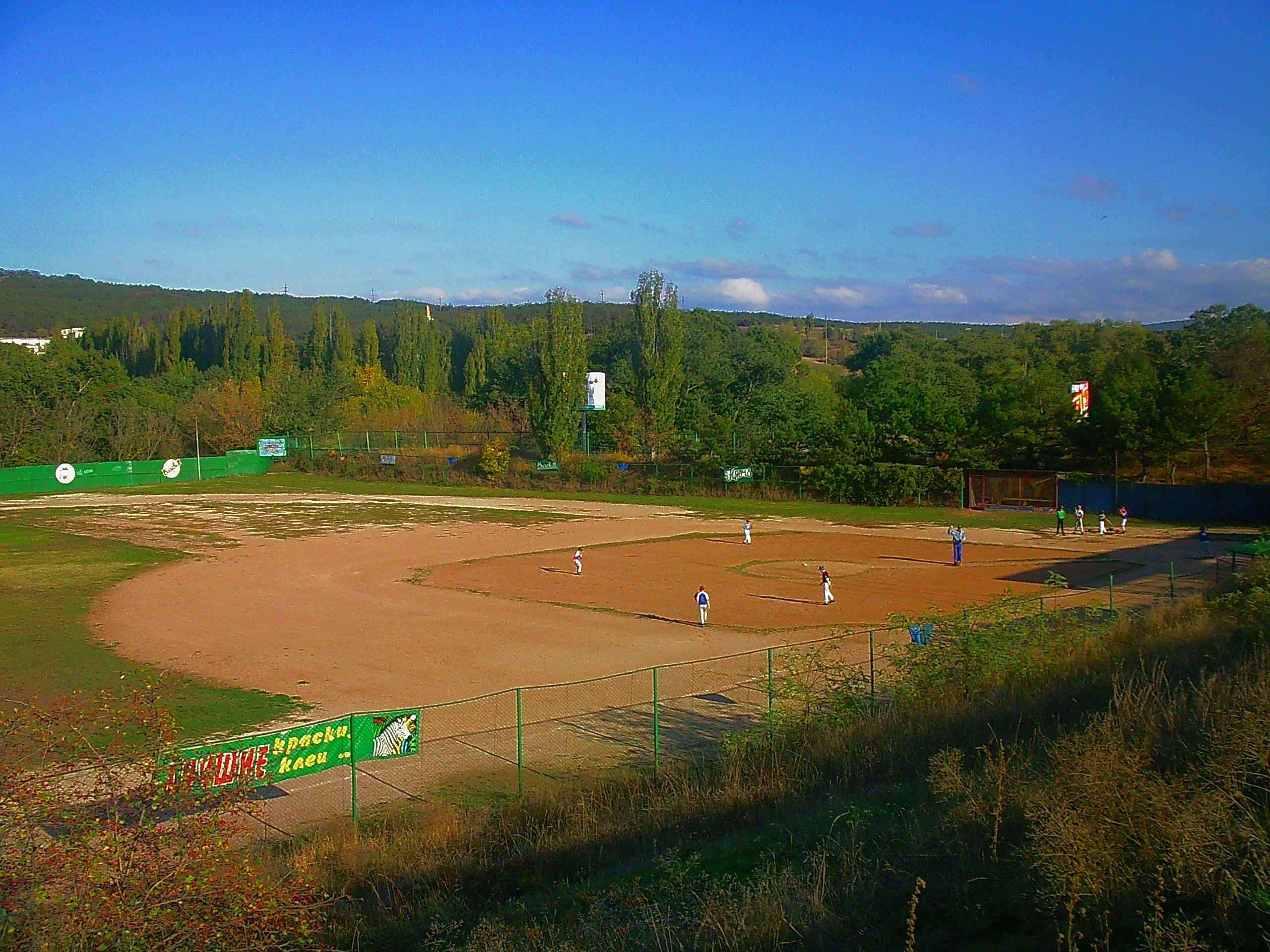 TNU Stadium in Simferopol, Crimea, Ukraine